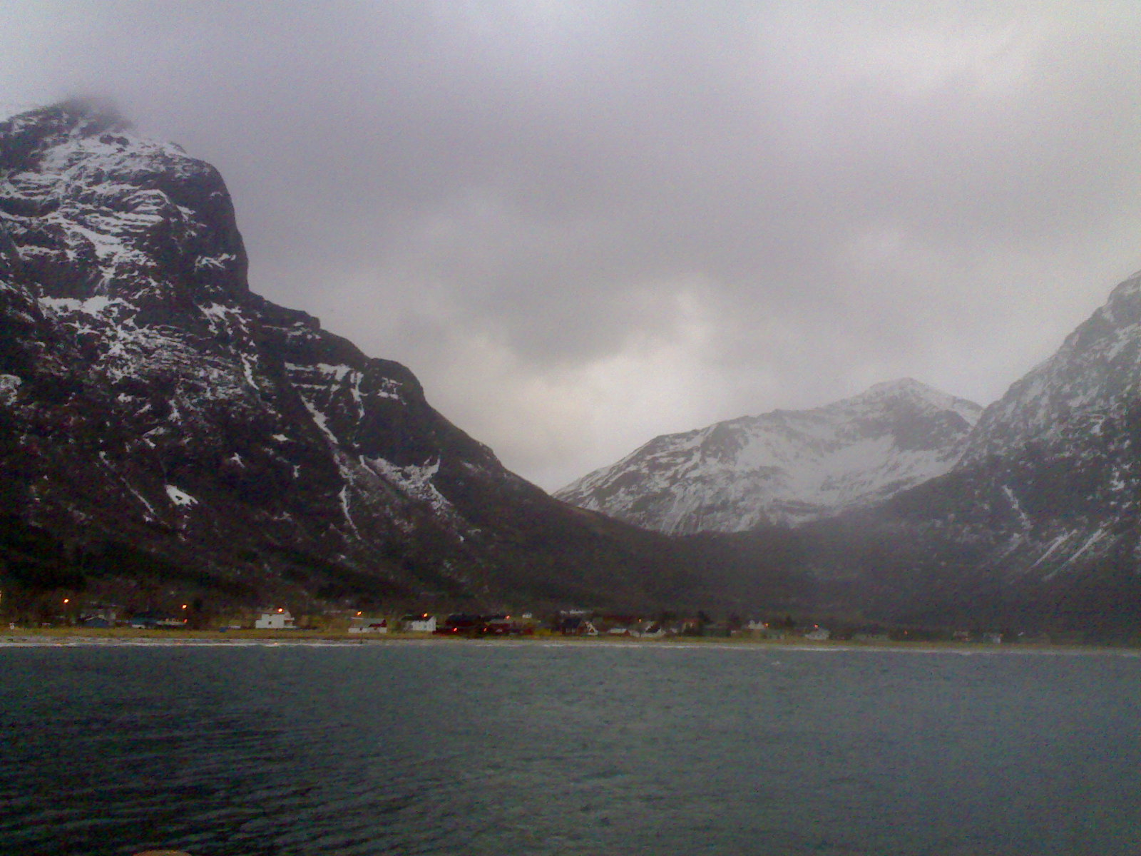 Picture of Storvik, Norway. Taken from Storvik Harbour.